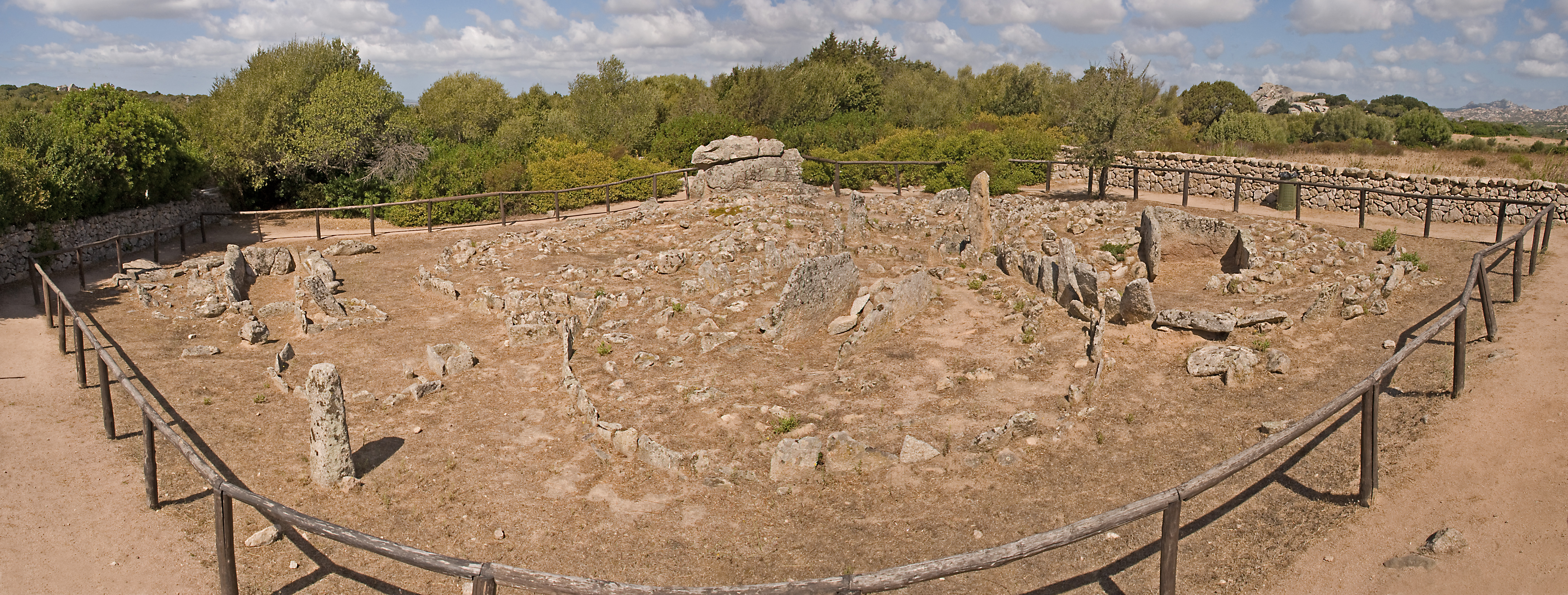 Li Muri archaeological site near Arzachena, Sardinia, Italy